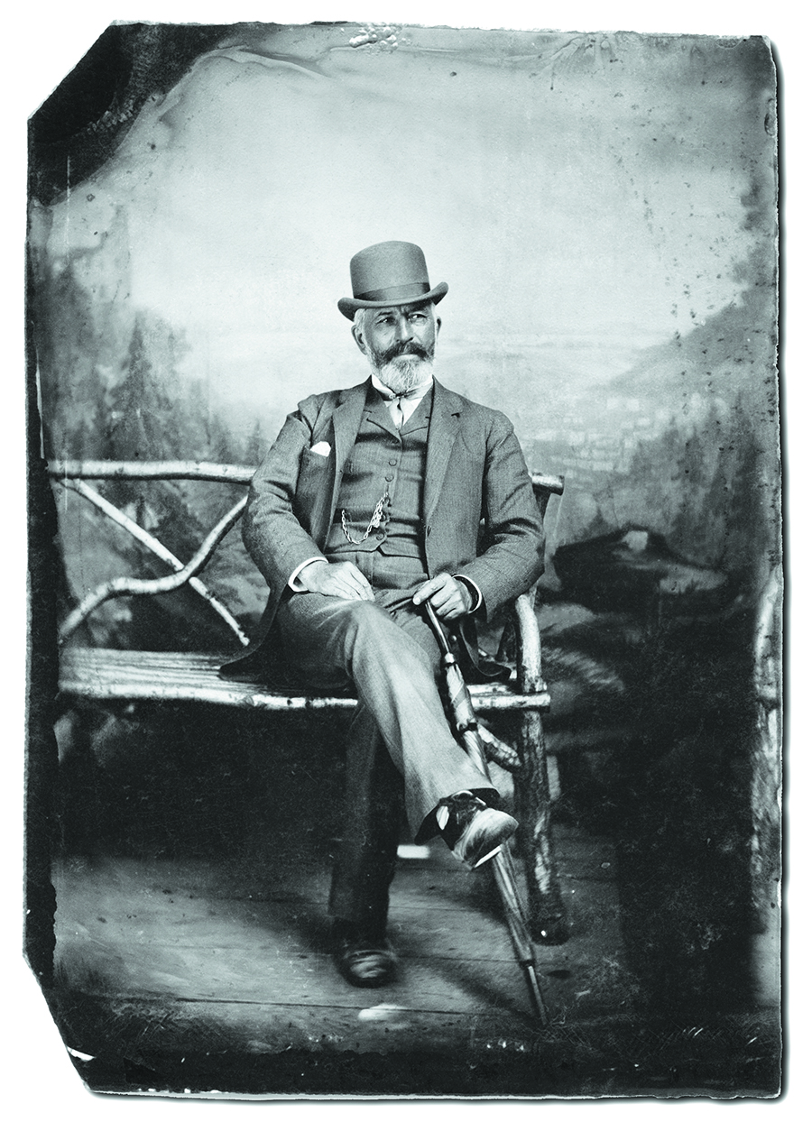 Frederick Layton, founder of the Layton Art Gallery. Circa 1880s.